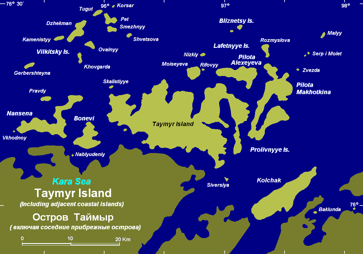 color map